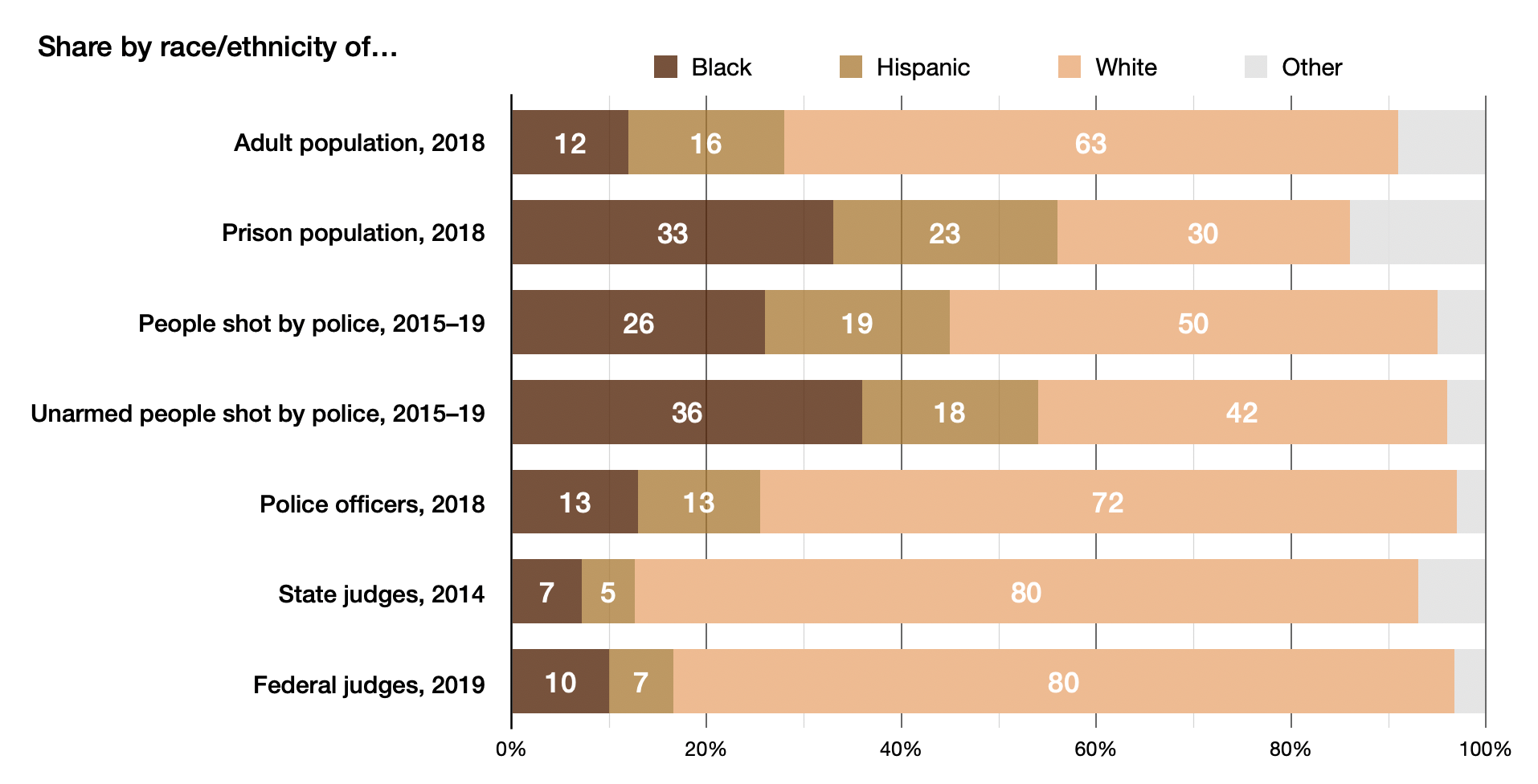 Comparative bar graphs show the racial shares of population, prisoners, police officers, people shot by police, and judges in the United States in the late 2010s. Black and White populations refer to those who are categorized with only that race and exclude those also identified as Hispanic. Hispanic individuals may be of any race. Population and imprisonment data from 2018: Gramlich, John. “Black Imprisonment Rate in the U.S. Has Fallen by a Third since 2006.” Pew Research Center (blog), May 6, 2020. People shot by police, 2015–19: Fox, Joe, Adrian Blanco, Jennifer Jenkins, Julie Tate, and Wesley Lowery. “What We’ve Learned about Police Shootings 5 Years after Ferguson.” Washington Post, August 9, 2019, sec. National. Police officers, 2018, based on the American Community Survey: Keating, Dan, and Kevin Uhrmacher. “In Urban Areas, Police Are Consistently Much Whiter than the People They Serve.” Washington Post, June 4, 2020, sec. National. State judges as of December 2014: George, Tracey E., and Albert H. Yoon. “Measuring Justice in State Courts: The Demographics of the State Judiciary.” Vand. L. Rev. 70 (2017): 1903. Federal judges as of August 2019: Root, Danielle, Jake Faleschini, and Grace Oyenubi. “Building a More Inclusive Federal Judiciary.” Center for American Progress (blog), October 3, 2019.